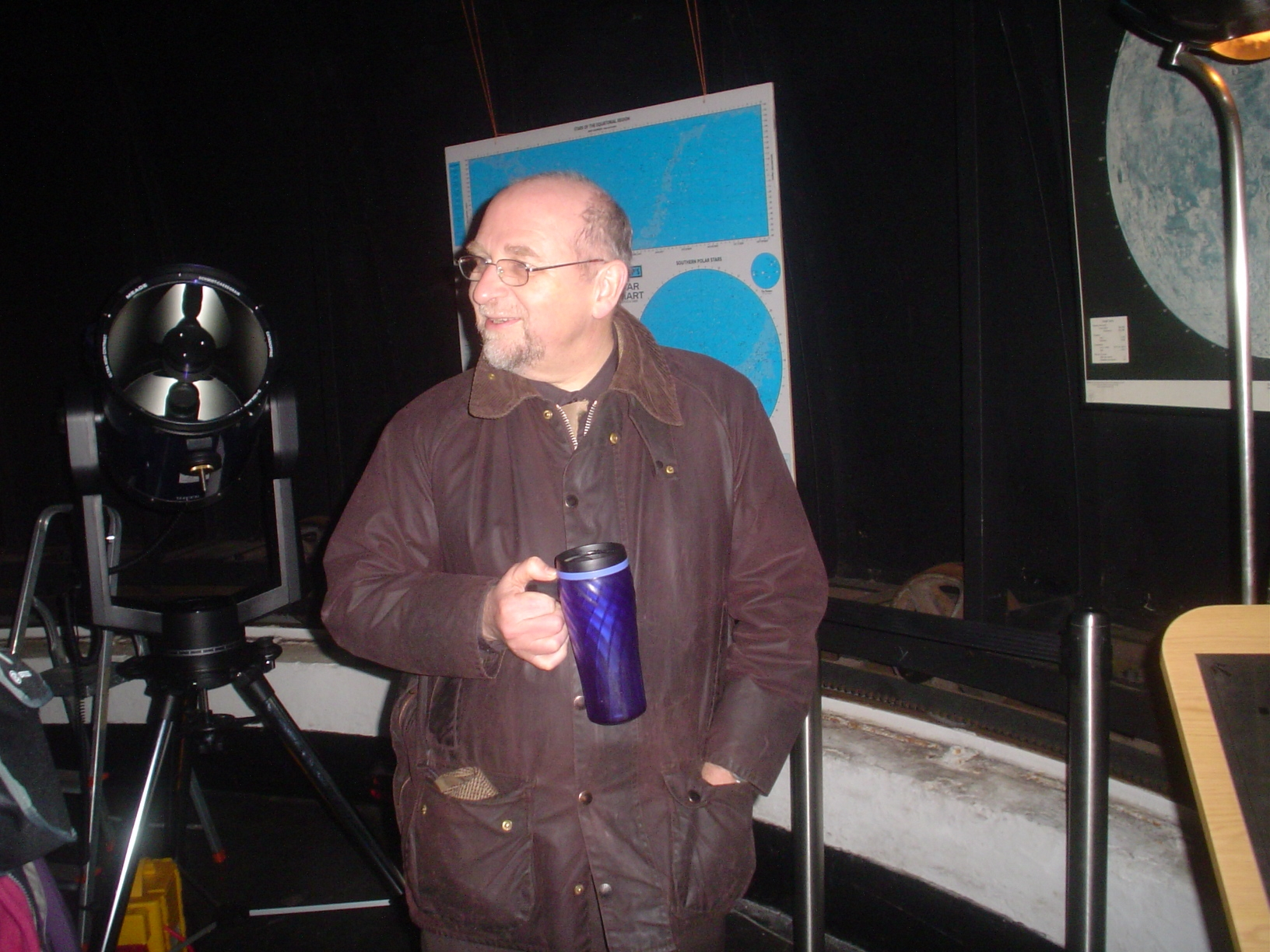 Taken with Cybershot DSC-P32 -Cyril Thomas|User:Cyrillic|Cyril Thomas 23:12, 13 March 2007 (UTC)